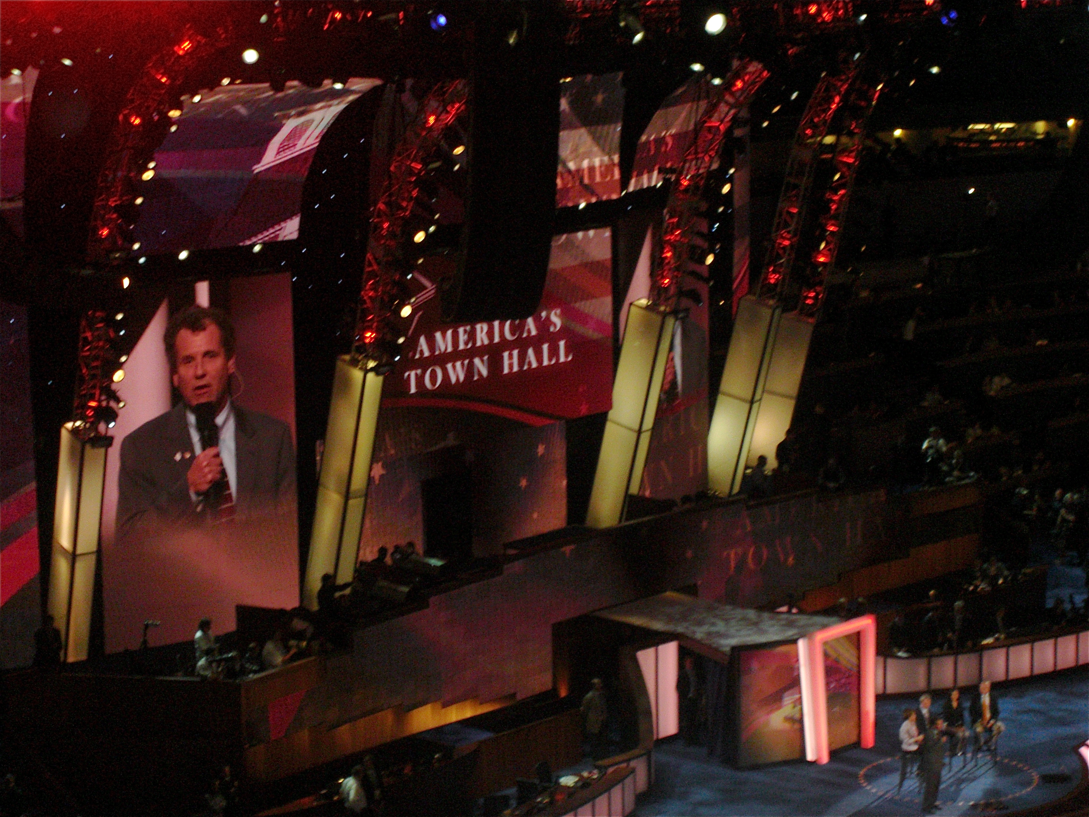 Sherrod Brown hosts a panel of advisers to Barack Obama's presidential campaign during the first day of the 2008 Democratic National Convention in Denver, Colorado.